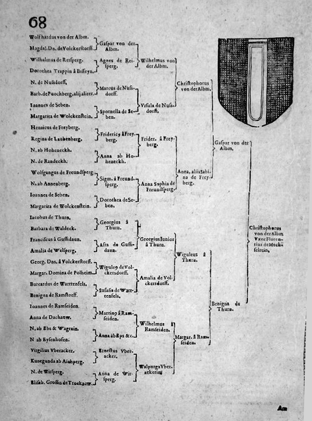 G. Bucelinus: Germaniae topo-chrono-stemmatographicae sacrae et profanae pars altera ... Ulm 1662, S. 68